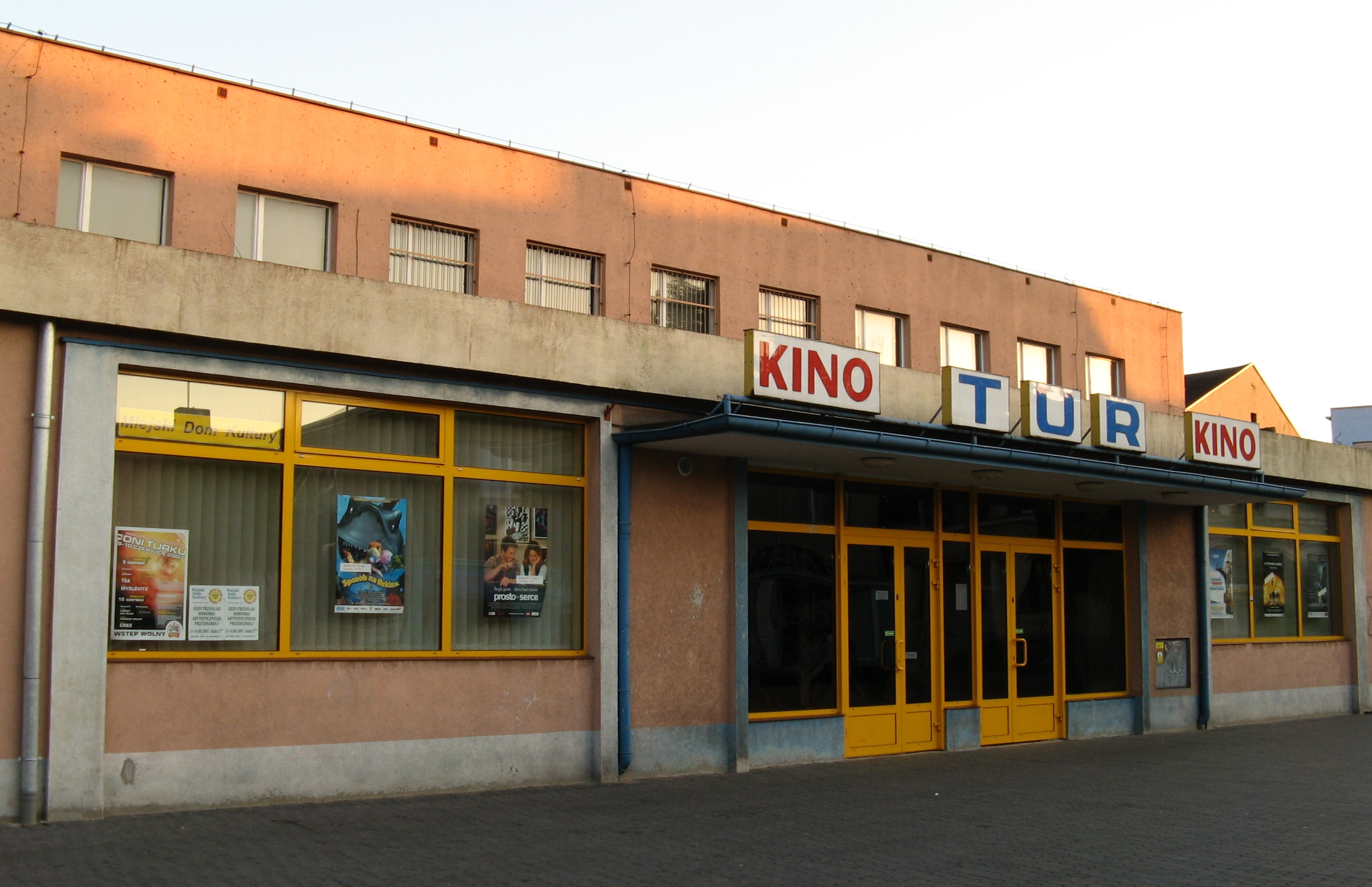 "TUR" Cinema (former Synagogue)